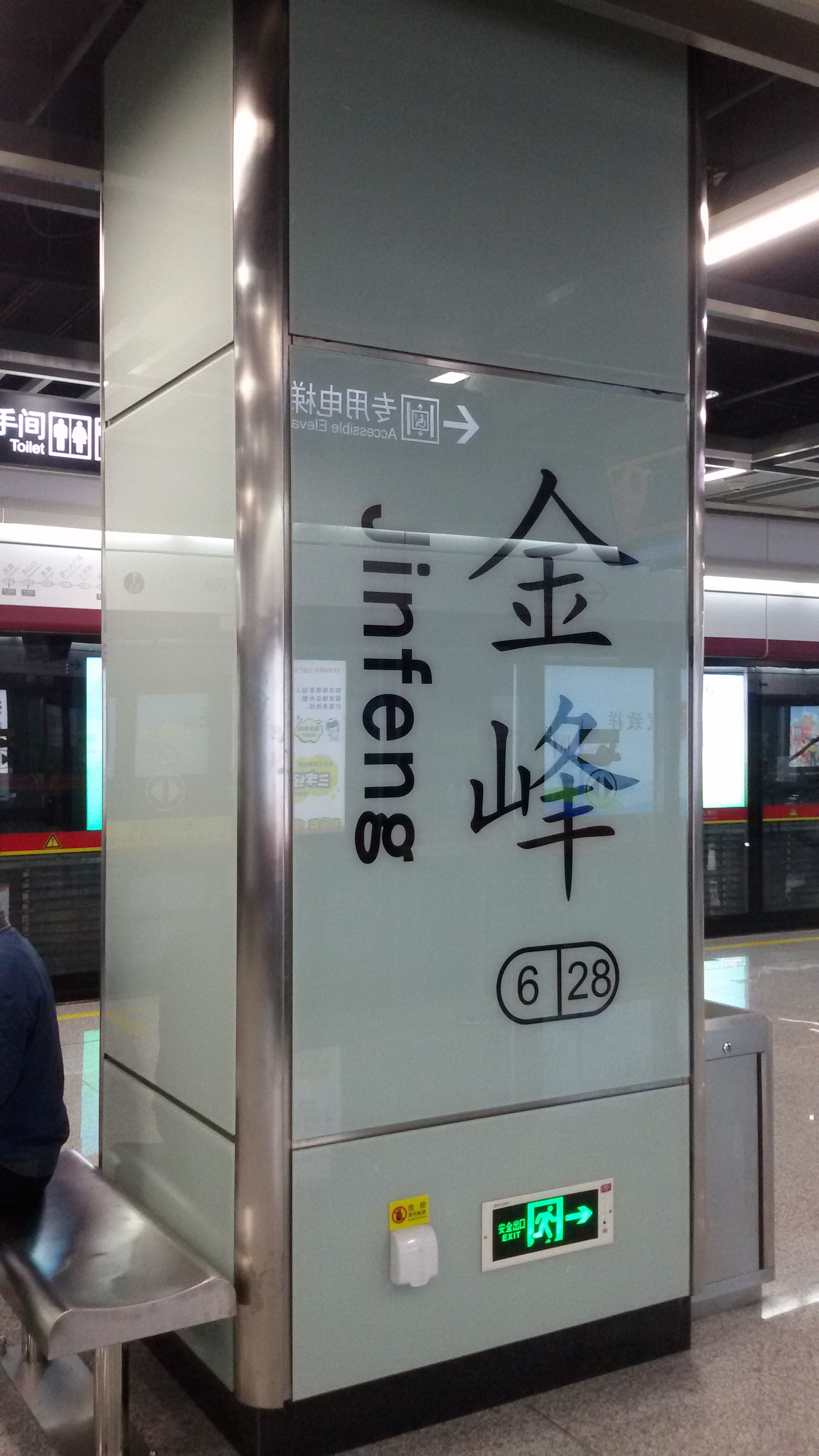 WORD on PILLAR for Jinfeng Station in Guangzhou Metro